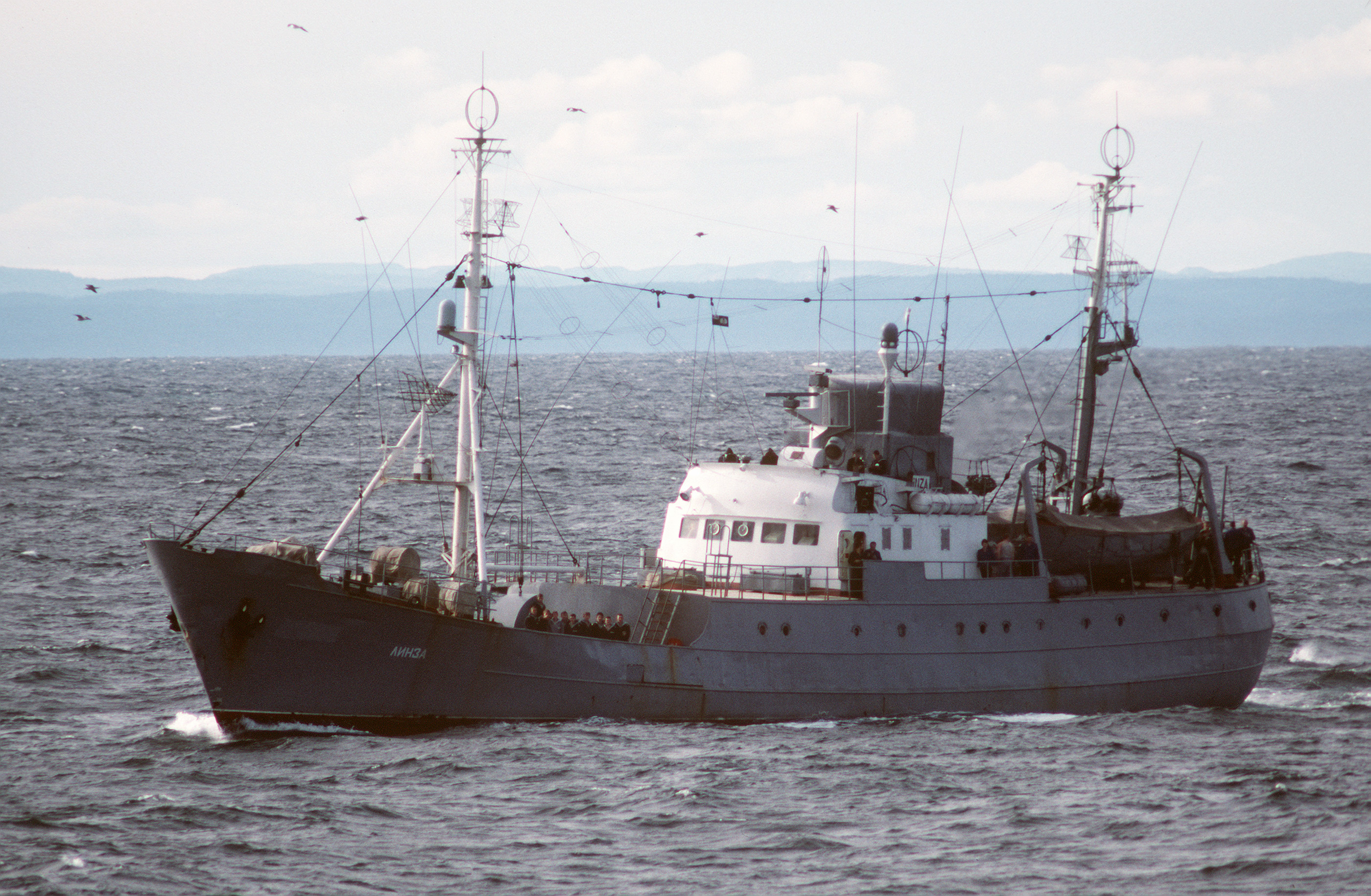 A port bow view of the Okean class intelligence collection ship LINZA observing NATO ships during Exercise NORTHERN WEDDING 86.